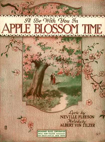 Cover art for the sheet music cover (I'll Be With You In) Apple Blossom Time. Copyright 1920, Broadway Music Corporation, New York.